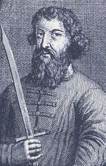 Archil, king of Imereti